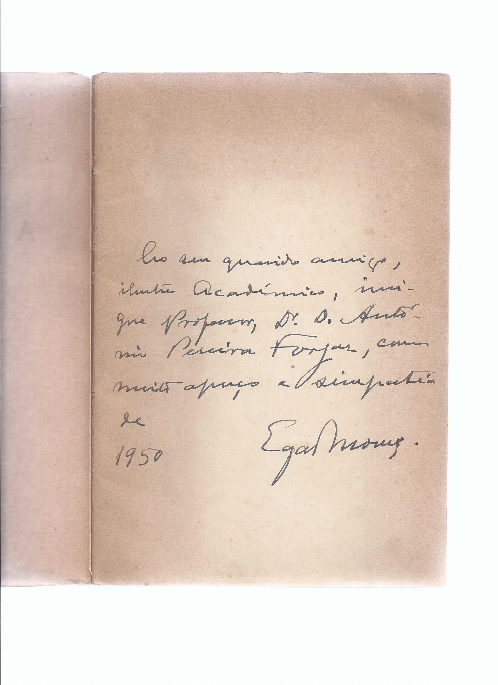 Dedicatória do Prof. Egas Moniz ao Prof. D. António Pereira Forjaz (Coleção Particular)